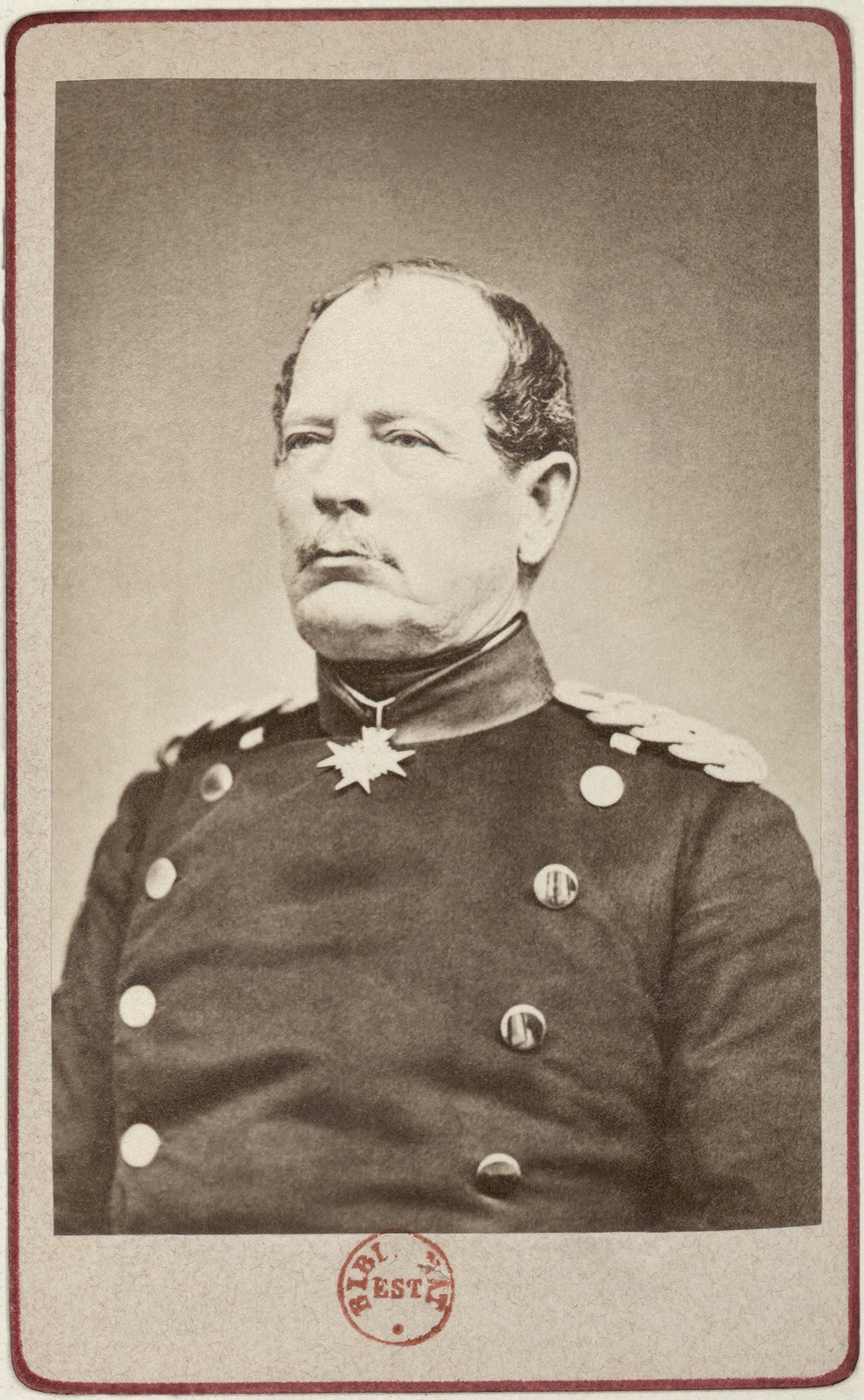 August von Werder (1808-1888), prussian, then german, general.